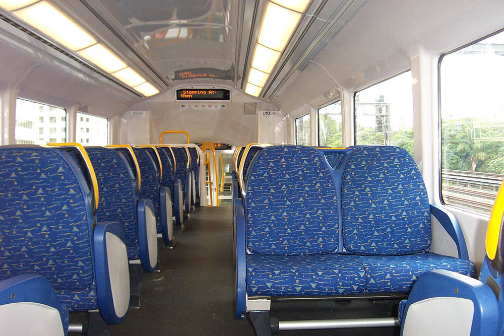 Inside the top deck of a Sydney CityRail M-set (Millennium) train